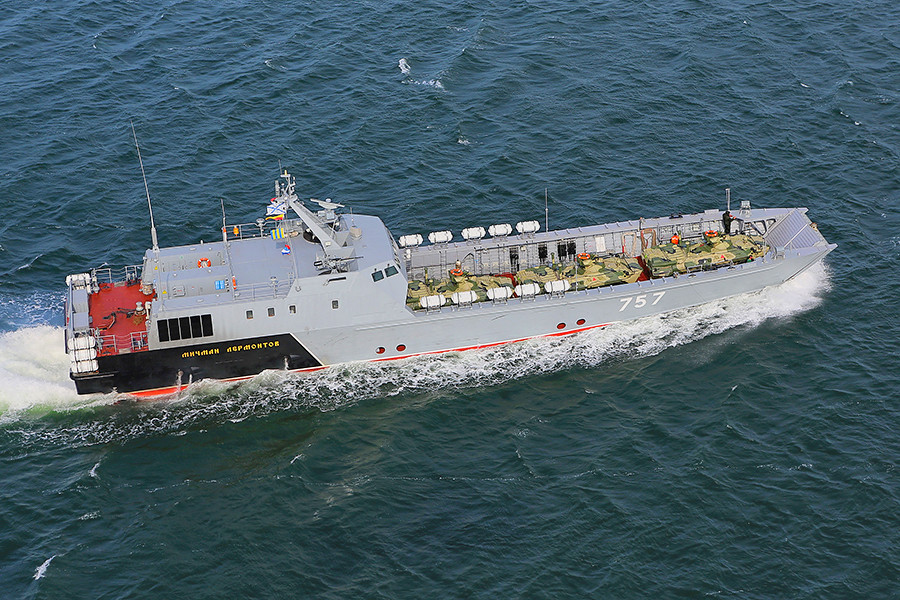 Michman Lermontov landing in Kaliningrad Oblast.